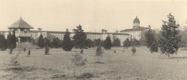 "View of the Alabama Insane Hospital - Tuscaloosa."